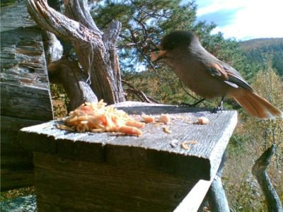 Bird-Torne valley